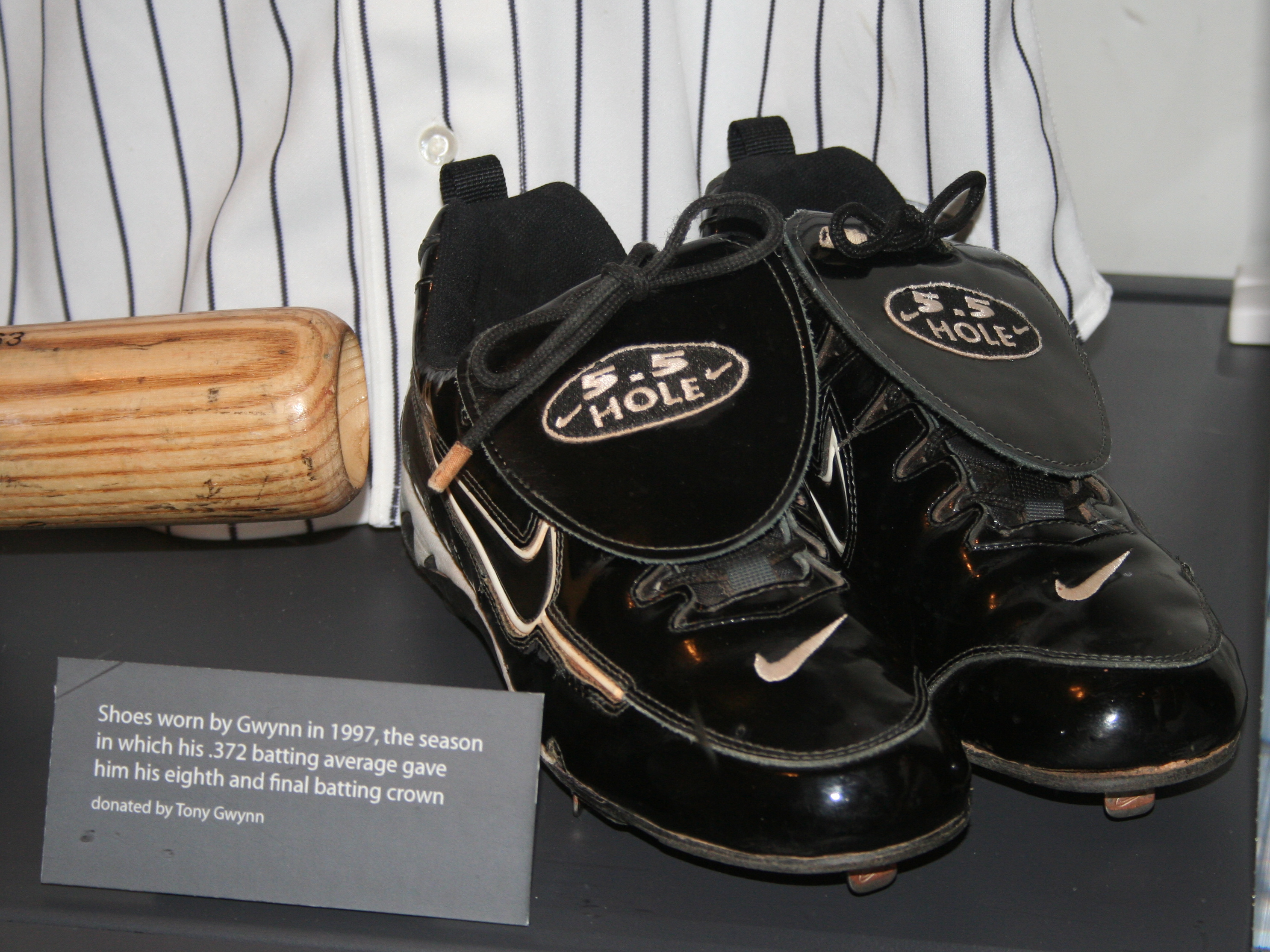 Shoes worn by Tony Gwynn in 1997, which he donated to the National Baseball Hall of Fame and Museum